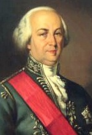 Rodrigo de Sousa Coutinho (1755-1812)